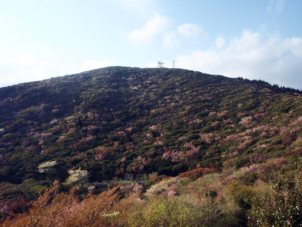 The summit of Mount Kinkan as seen from the SSE in Numazu, Shizuoka Prefecture, Japan. Shot at Hedatoge lookout.